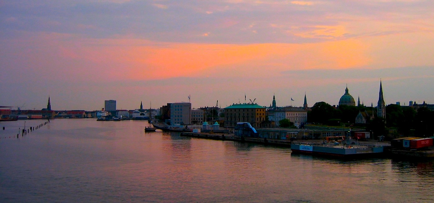 A general view of Copenhagen